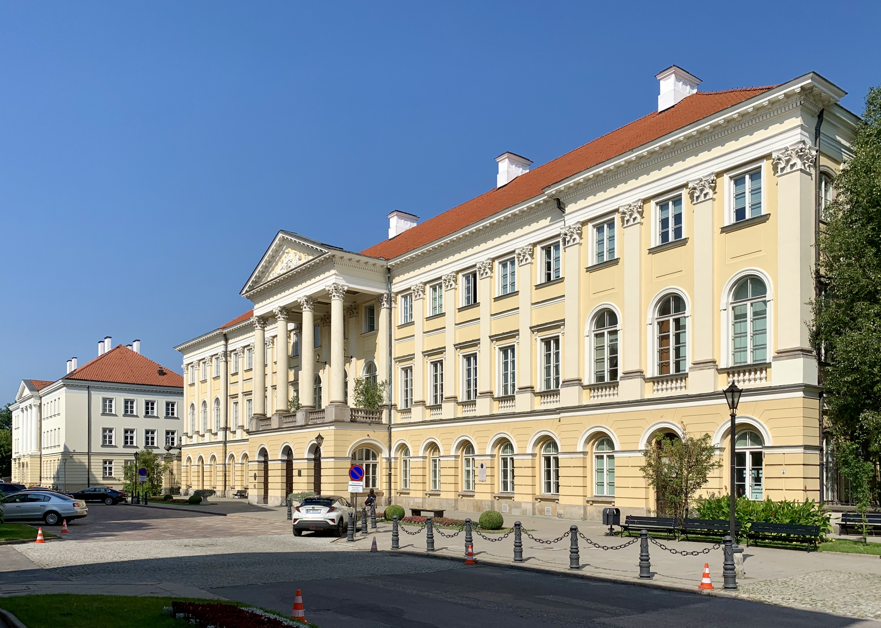 Kazimierzowski Palace, University of Warsaw, Poland